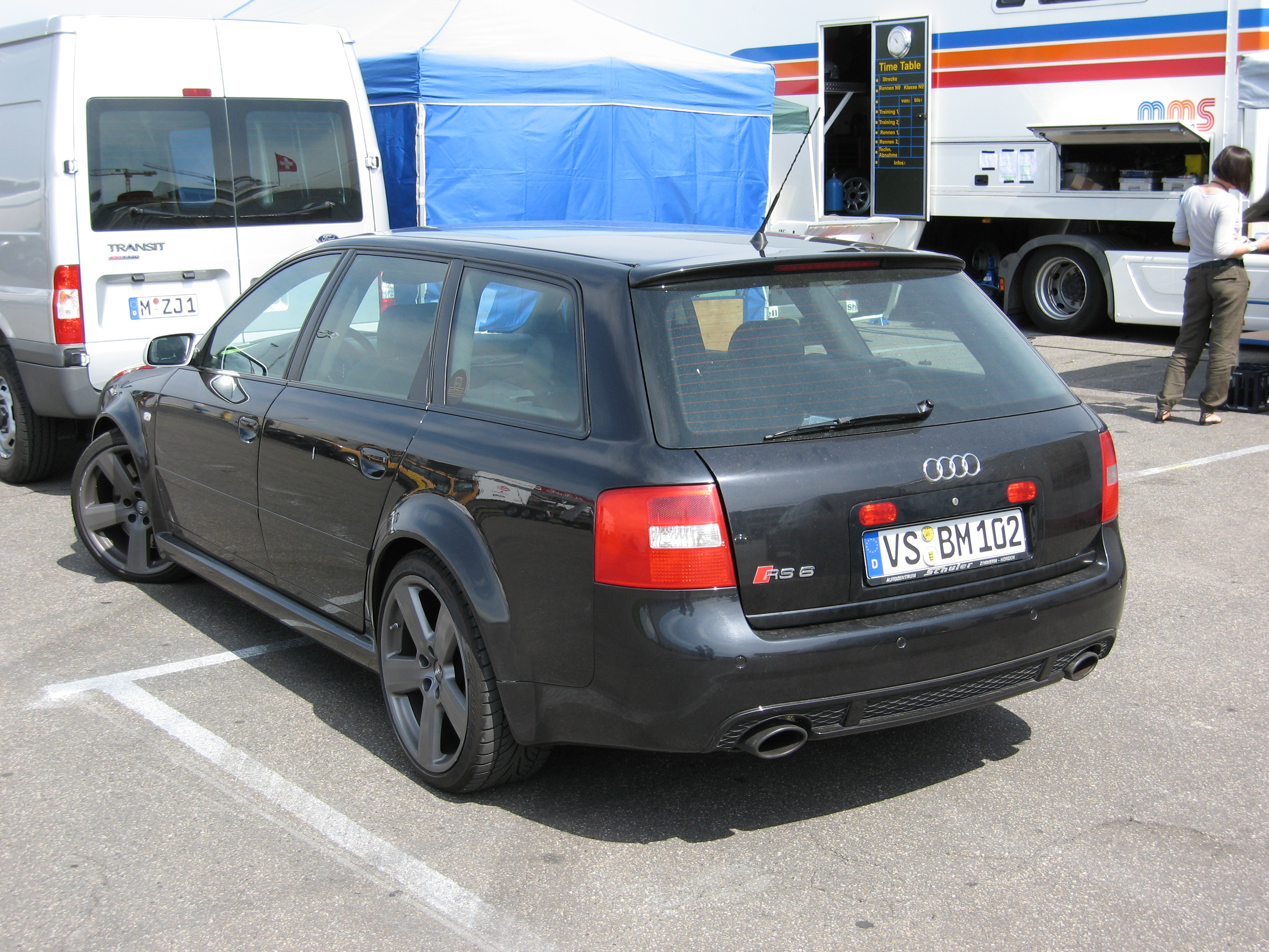 Audi C5 RS6 Plus